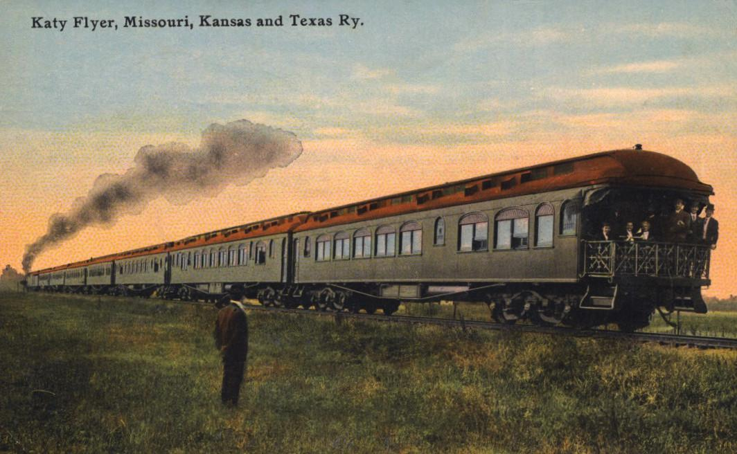 Postcard photo of the Missouri, Kansas and Texas Railroad's "Katy Flyer".